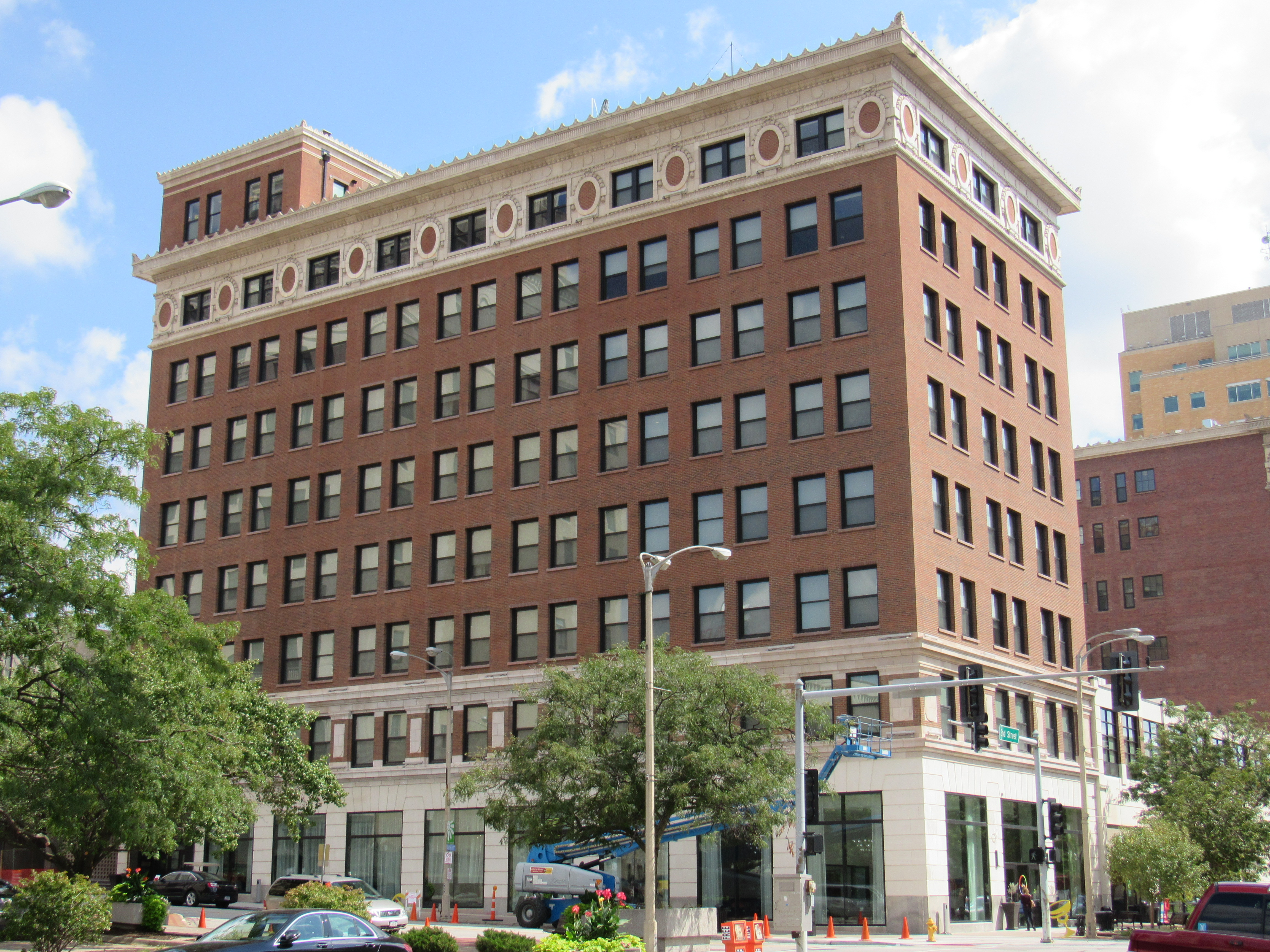 The Current Iowa is a Marriott Autograph Collection hotel located in downtown Davenport, Iowa. It was originally known as the Putnam Building, and it is listed on the National Register of Historic Places.